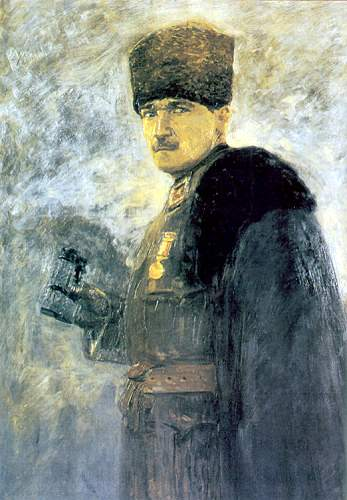 Mustafa Kemal Paşa (Nazmi Ziya Güran).